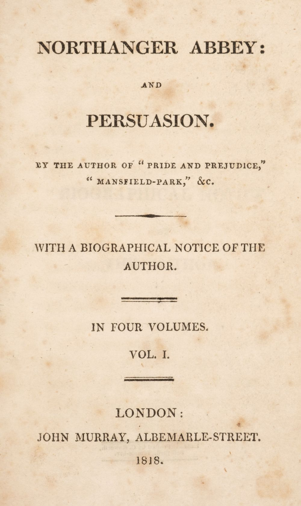 First edition of Jane Austen's Northanger Abbey and Persuasion